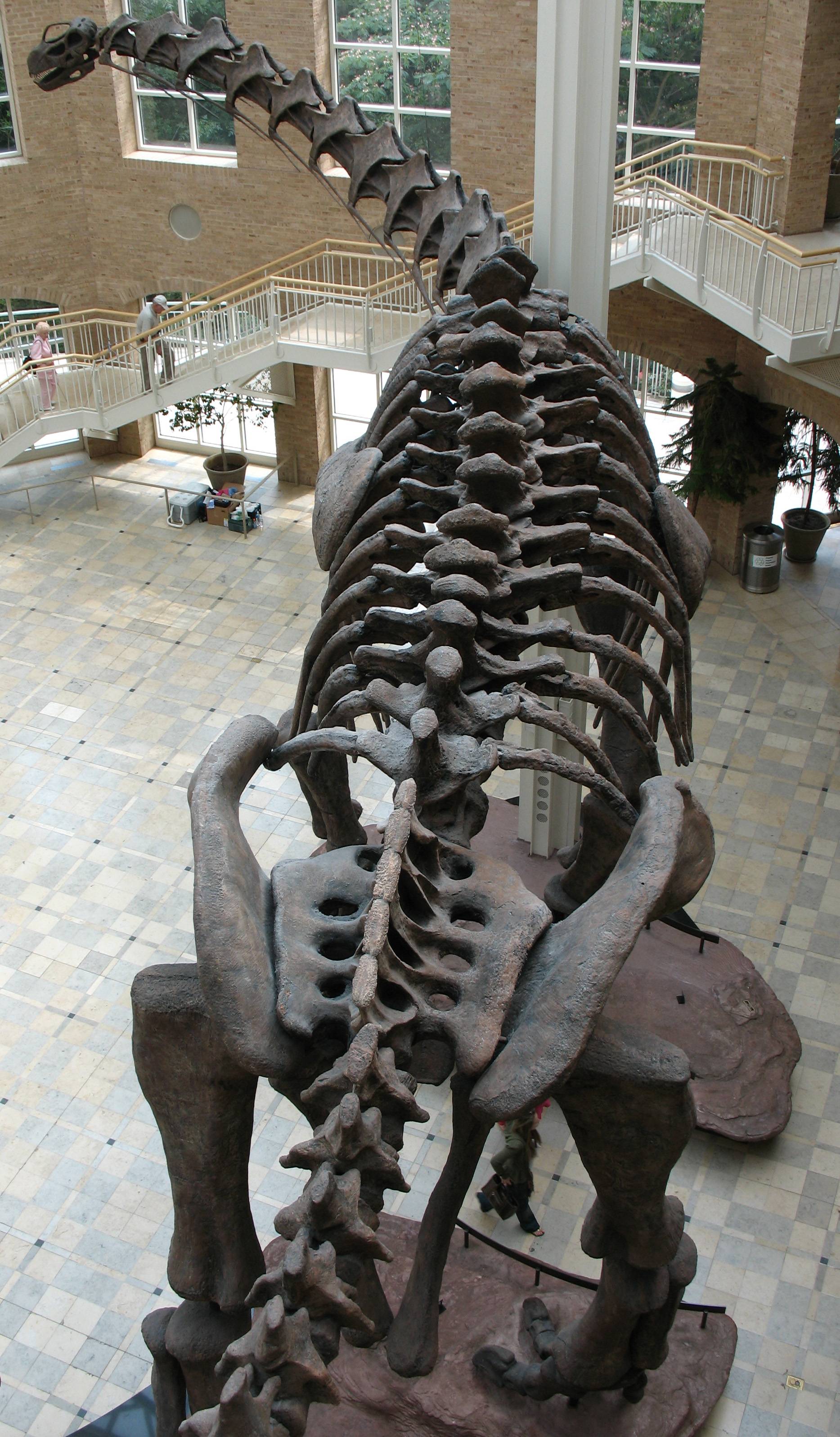 "A prehistoric battle of gigantic proportions unfolds in the permanent exhibition Giants of the Mesozoic, filling the Fernbank Museum’s Great Hall. This exhibition recreates life in the badlands of Patagonia, Argentina, where the largest dinosaurs in the world were unearthed. Argentinosaurus defends itself from a surprise attack by Giganotosaurus, while a flock of 21 Pterodaustro and three Anhanguera scatter overhead in reaction to the commotion." from Fernbank Museum website